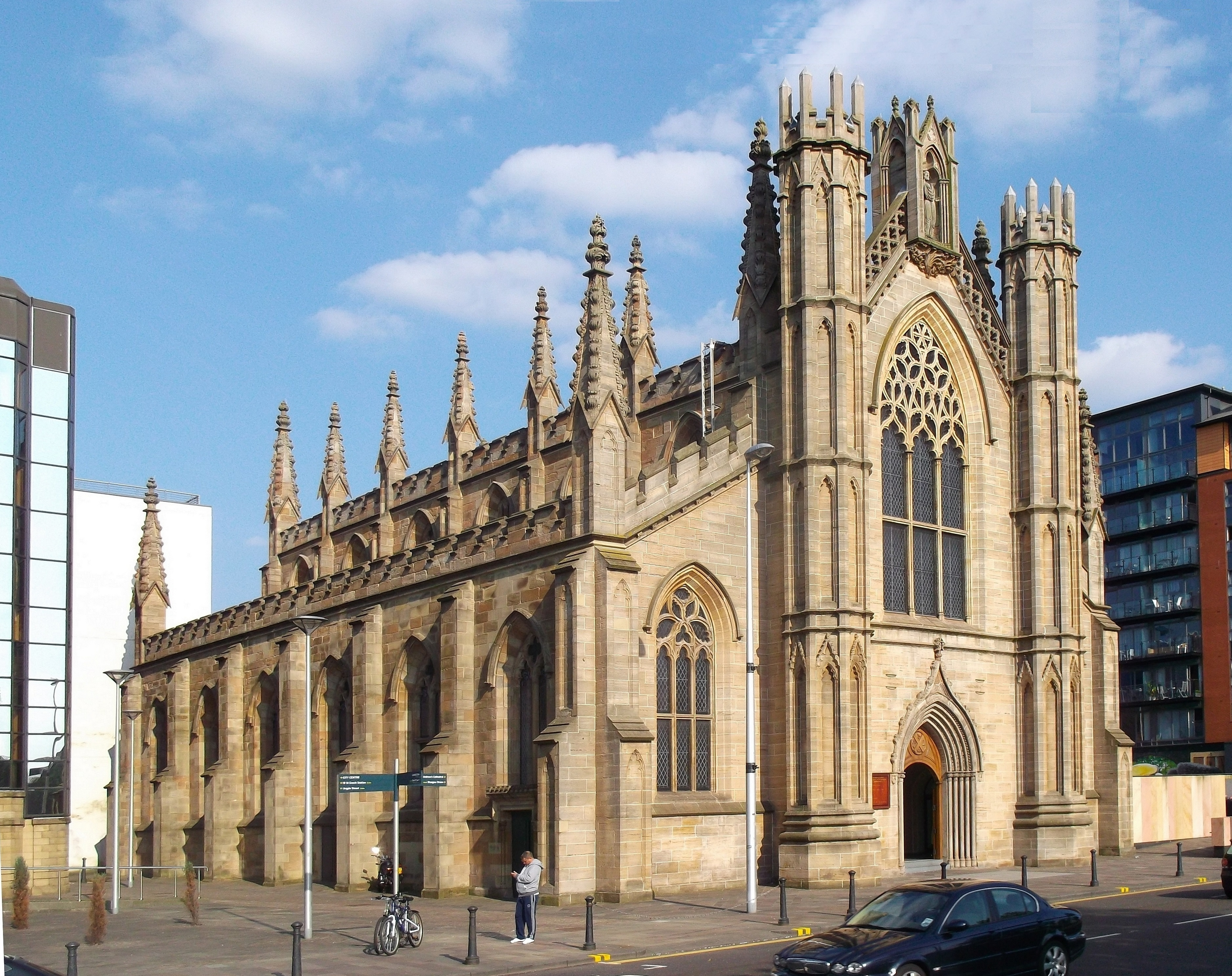 St Andrew's Roman Catholic Cathedral, Glasgow, seen from across Clyde Street